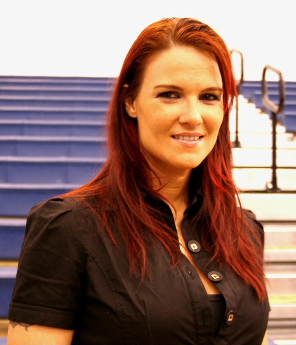 Amy "Lita" Dumas on April 21, 2007 in Harrisonburg, VA depicted person: Amy Christine Dumas (age: 32.02)